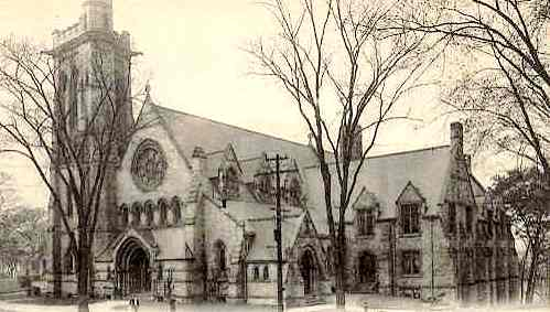 Postcard: Christ Church, Ansonia, Connecticut, 1908 postmark Description: Store web page states, "1908 postally used undivided back Rotograph postcard, No. A 31503, showing Christ Church in Ansonia, CT."